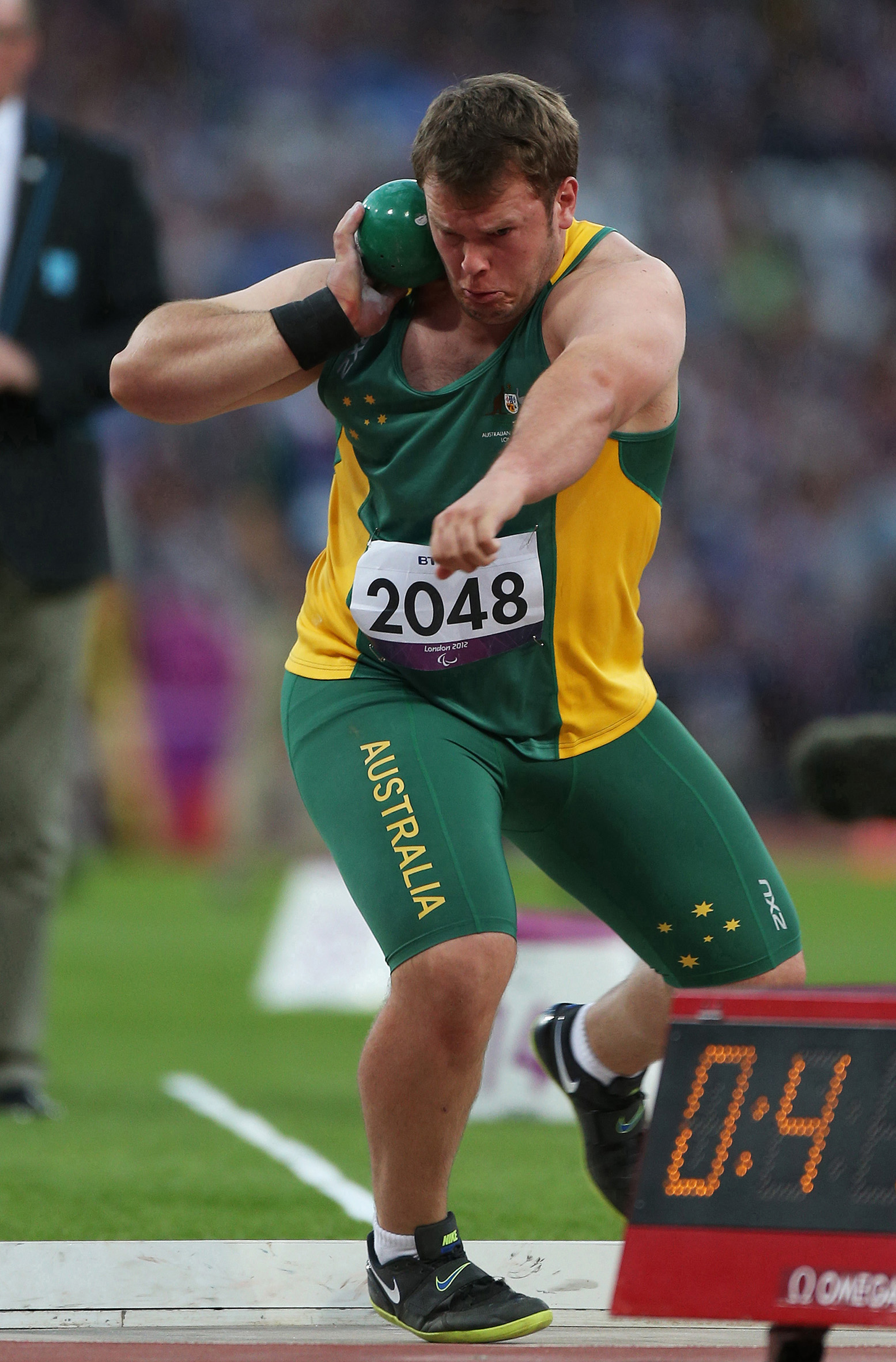 Photograph of Australian Paralympic team member Lindsay Sutton at the 2012 Summer Paralympic Games in London